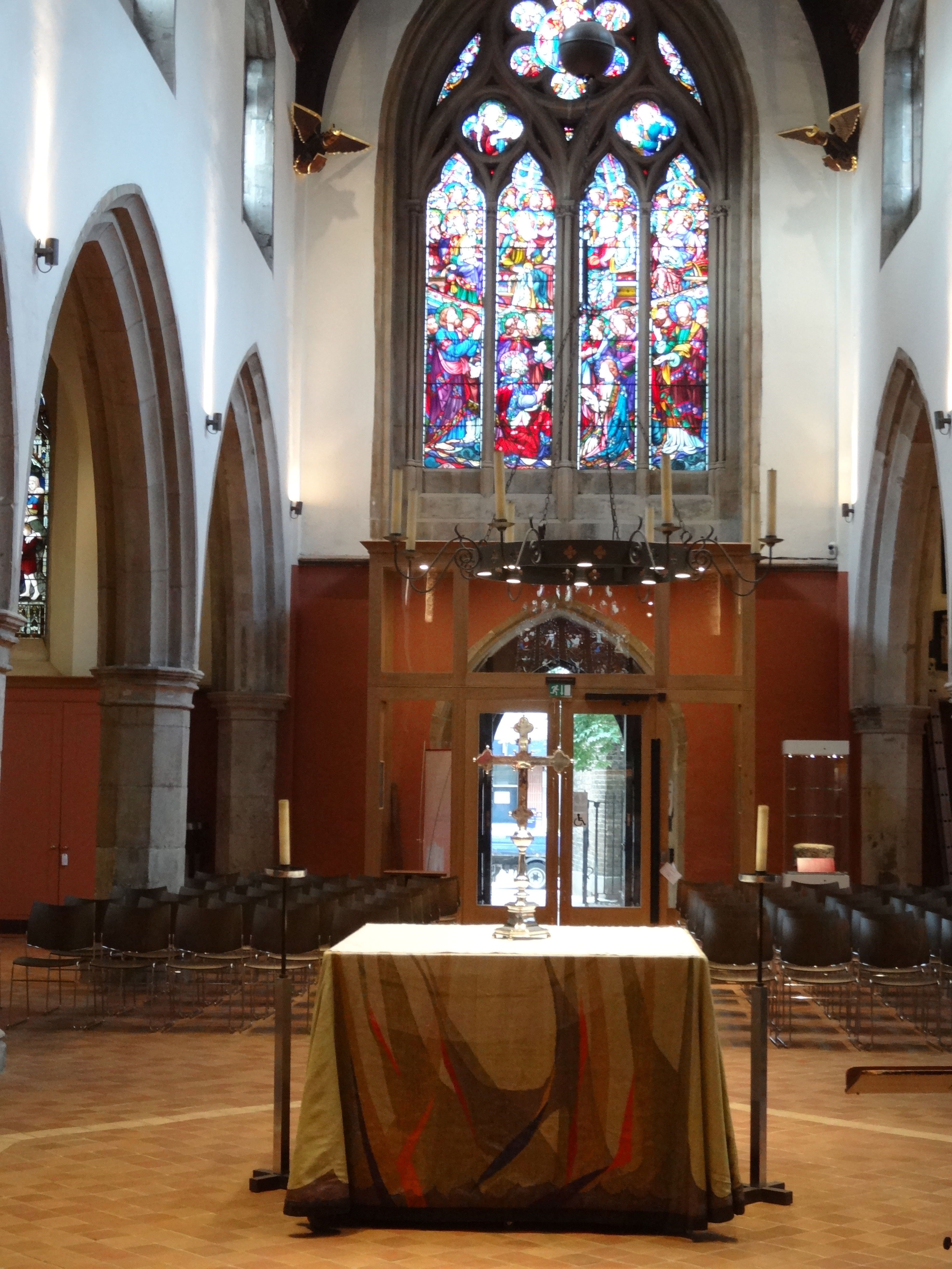 All Saints church, Kingston upon Thames (interior)